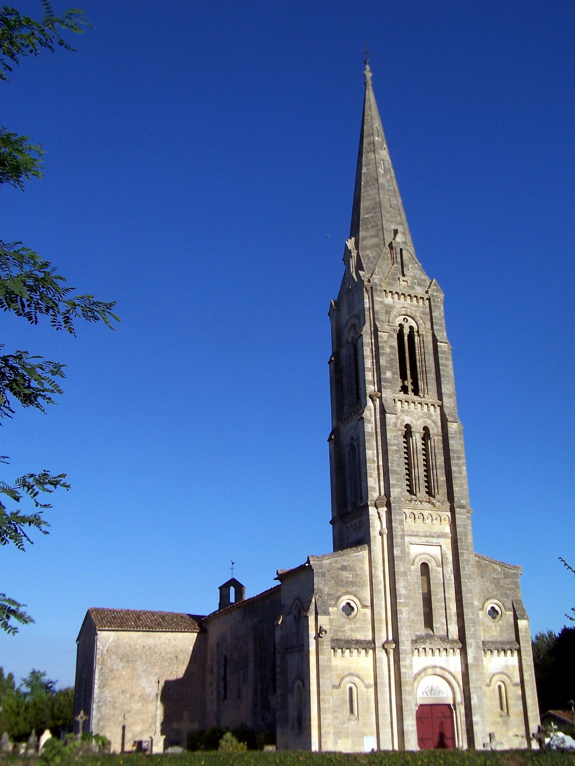 Saint Peter church of Saucats (Gironde, France)